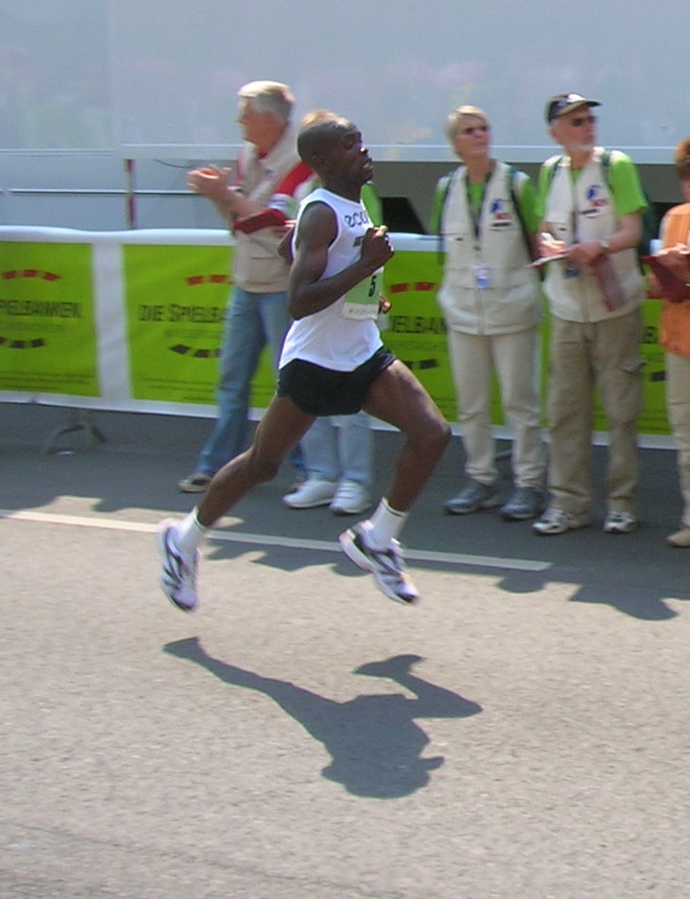 David Kiptanui, Last meters of the Hannover Marathon 2006.